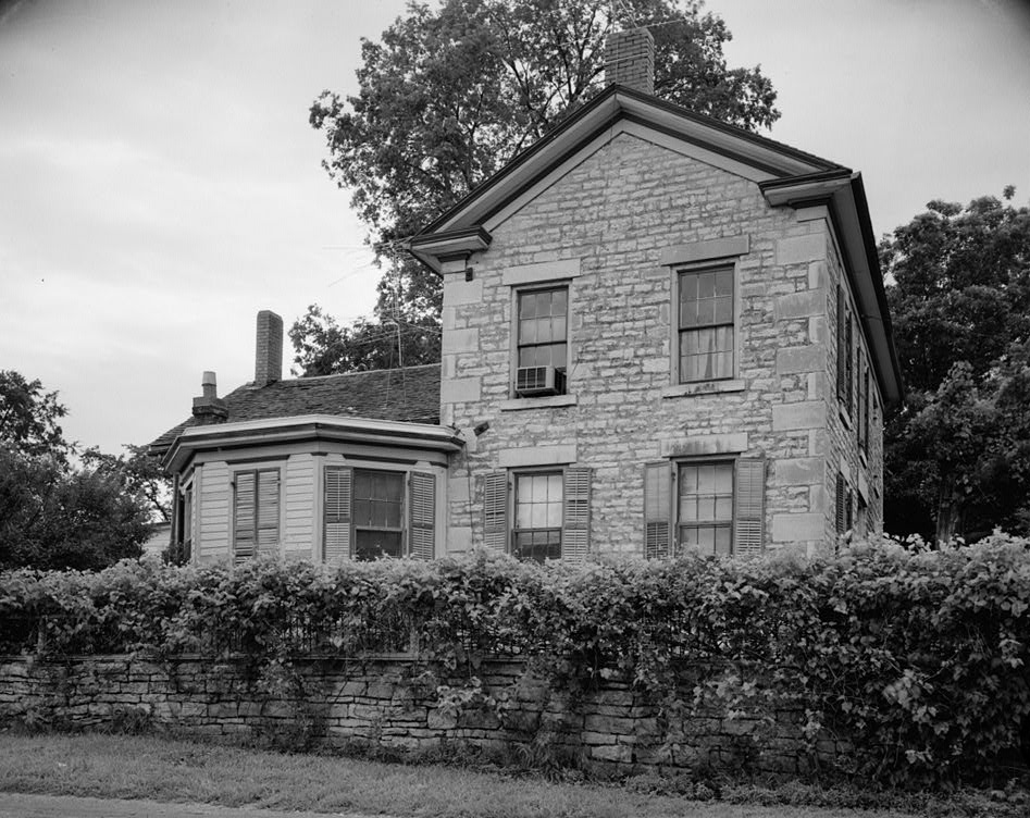 Eastern facade of the Isaac Goodnow House, a historic house in Manhattan, Riley County, Kansas, United States. Built in 1857, the house was added to the National Register of Historic Places as the "Goodnow House" on 24 February 1971.